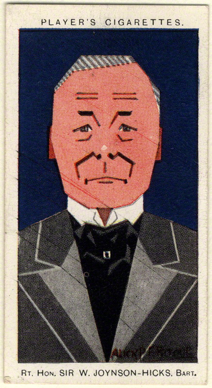 Cigarette card depicting Sir William Joynson-Hicks, Bt., statesman